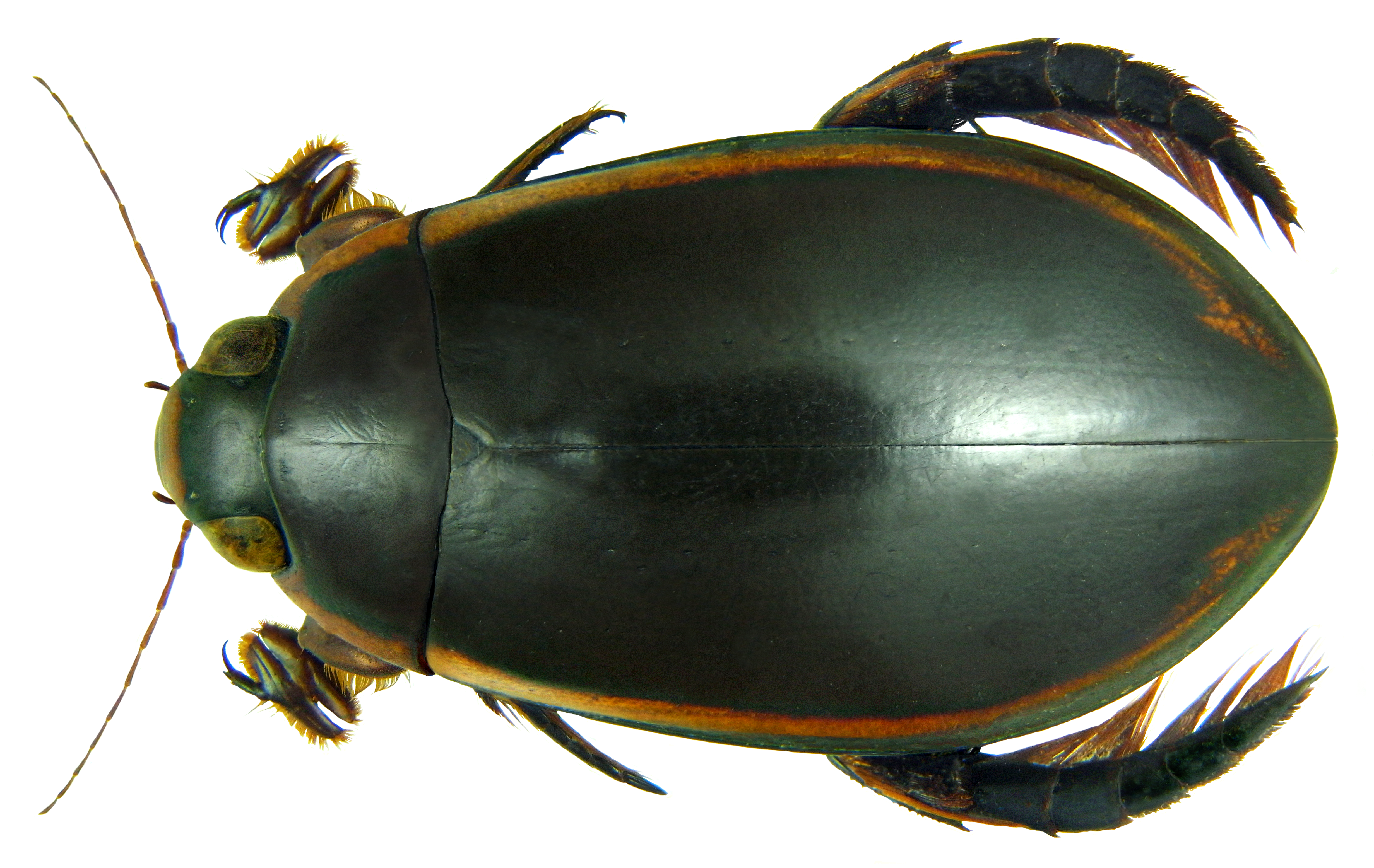 Dorsal view of Cybister limbatus Familie: Dytiscidae Groesse: 35 mm Fundort: Thailand, Chiang Mai, Doi Pui leg. 26.X.1984; det. Hendrich Photo: U.Schmidt, 2012